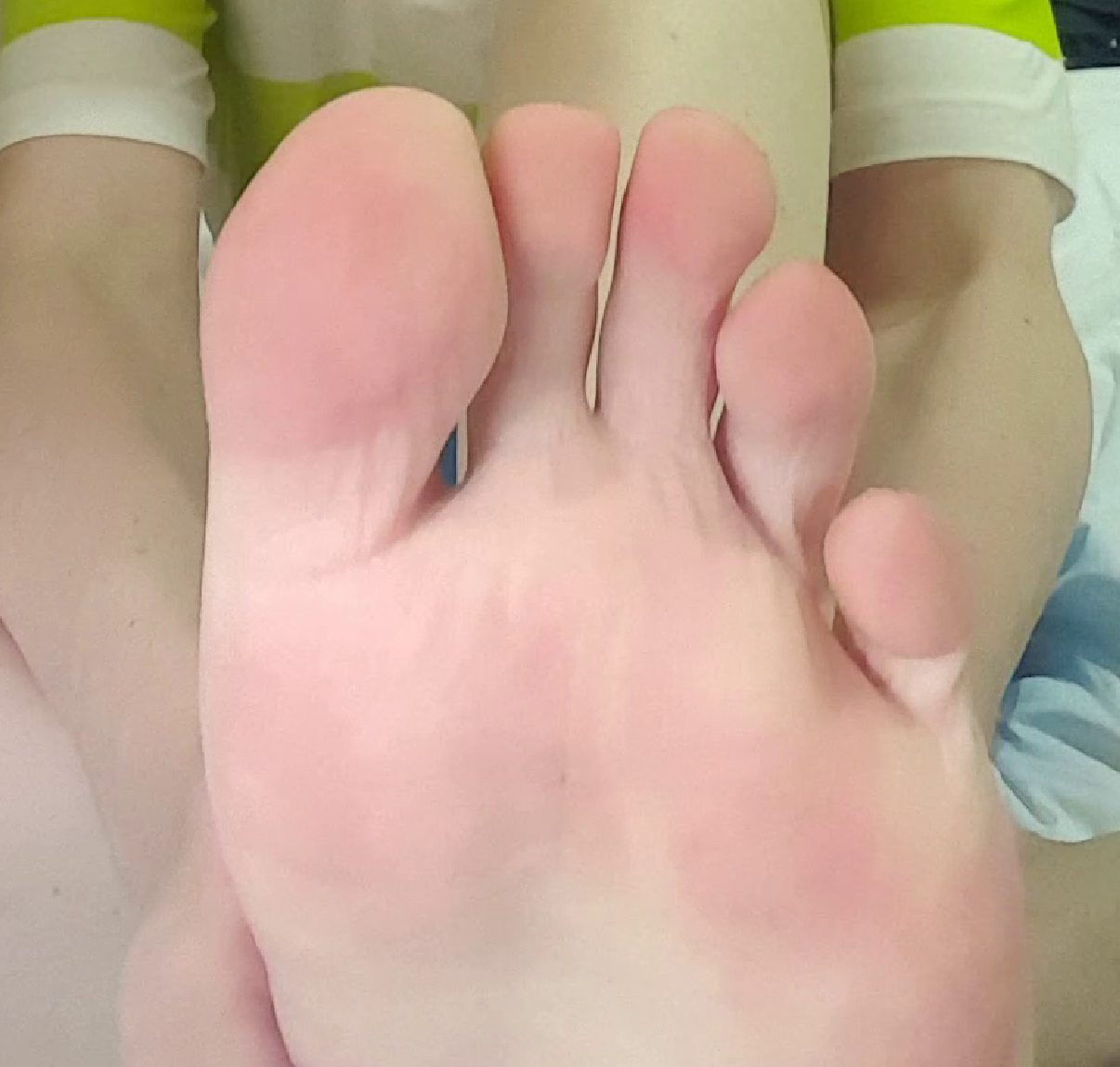 ball of a human foot